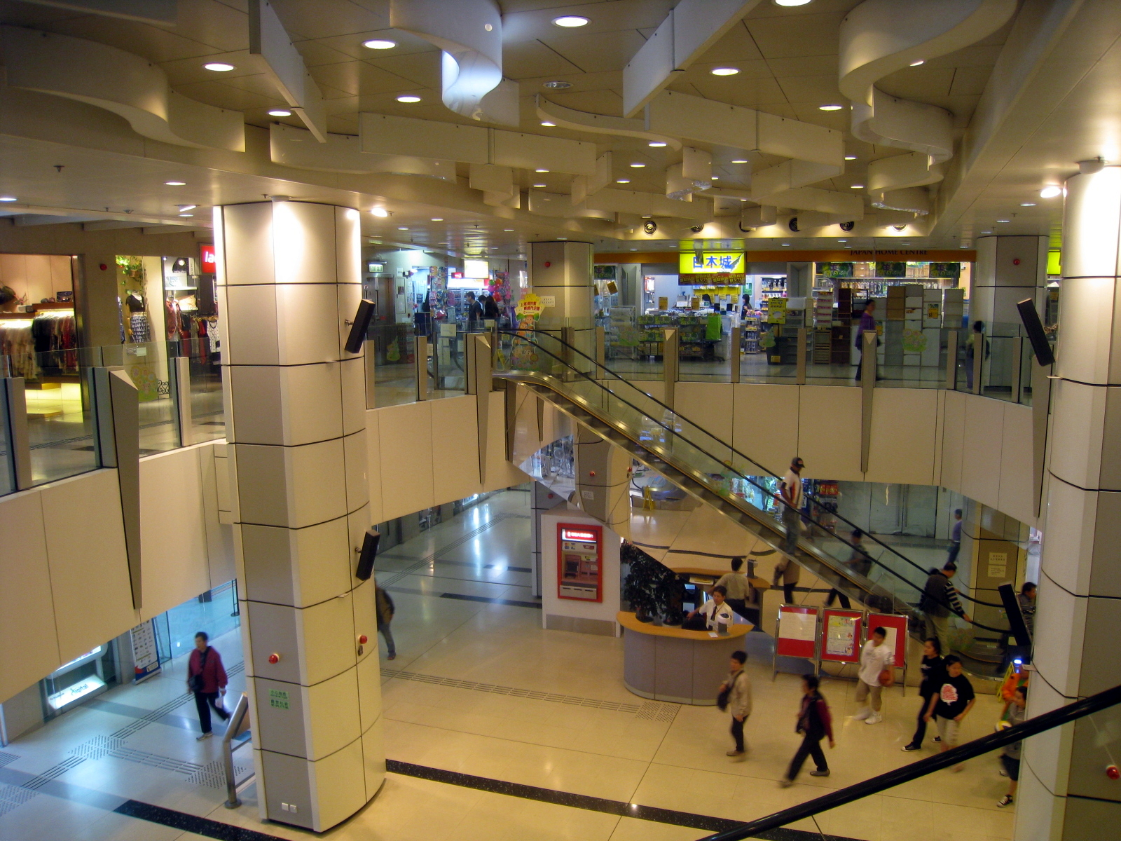 Kwai Chung Estate Shopping Centre Void